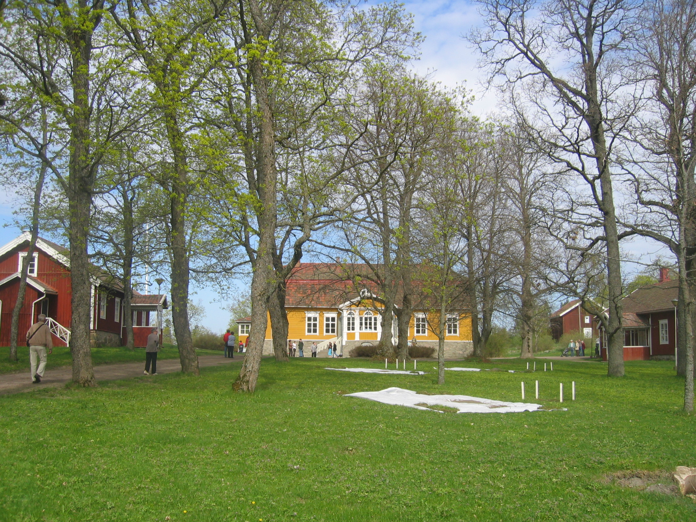 Main building of the Saari Manor, Mietoinen Finland after restoration. Picture taken on a open house day organised by the owner, Kone Foundation. Archaeological dig sites are visible in the front